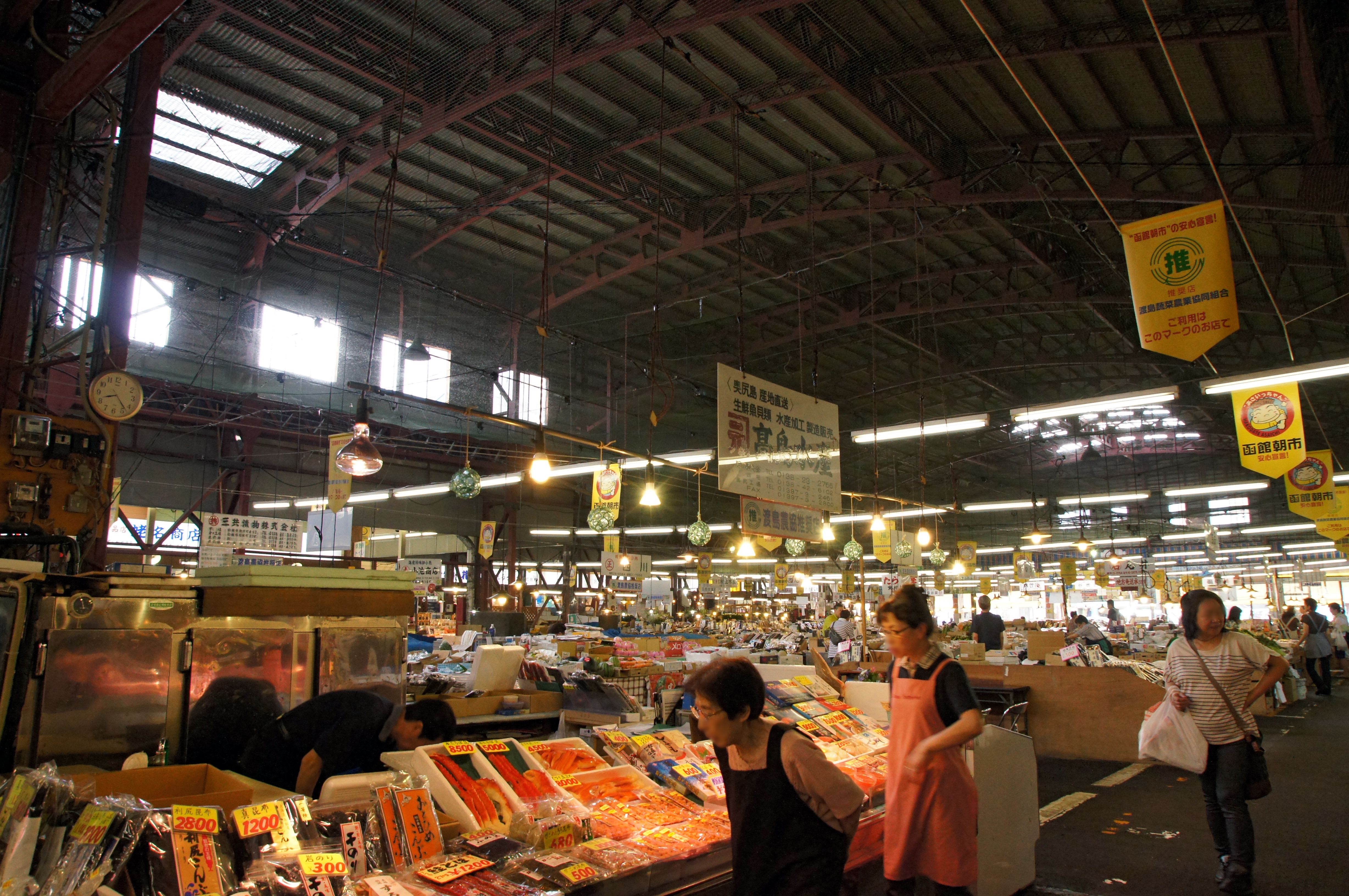 at Hakodate Asaichi in Hakodate, Hokkaido prefecture, Japan